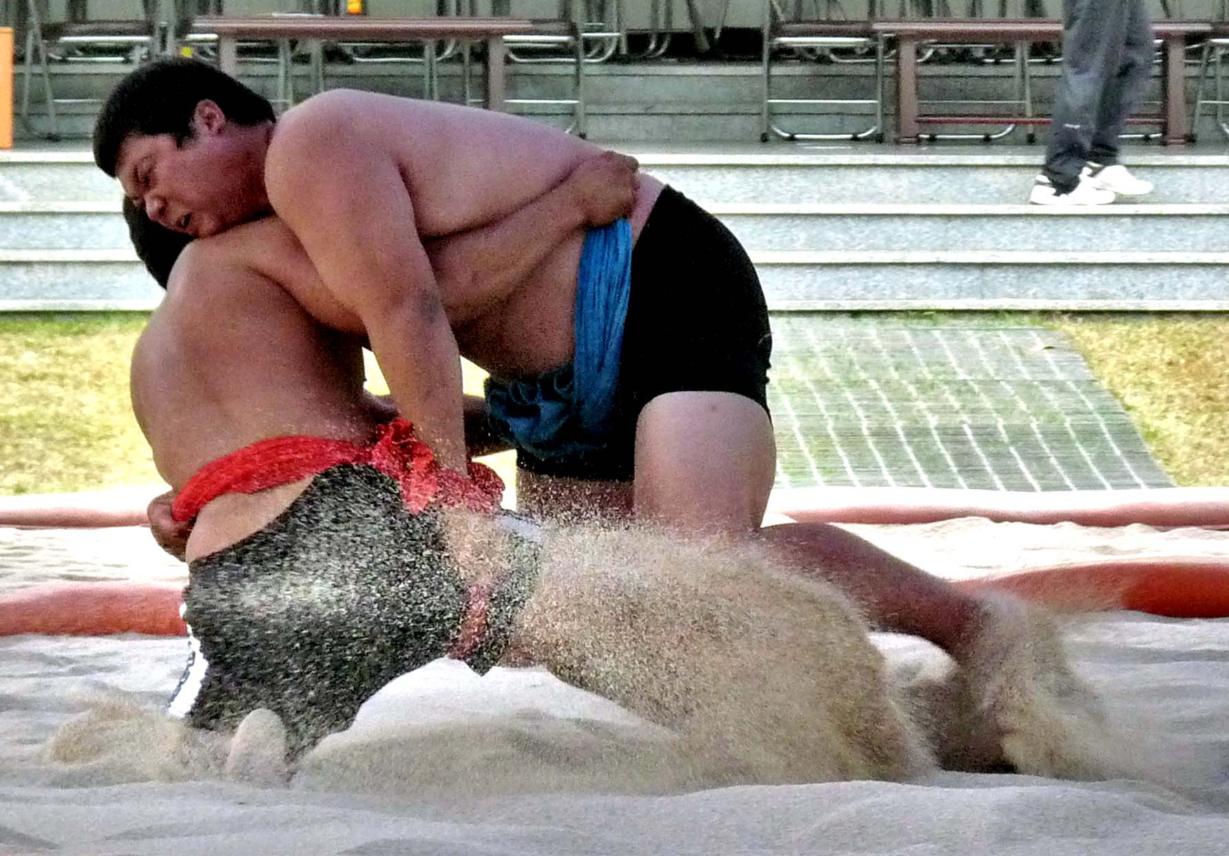 The 28th Gyeongju Citizens' Athletics Festival held in Hwangseong Park, Hwangseong-dong, Gyeongju, North Gyeongsang province, South Korea on October 10, 2008